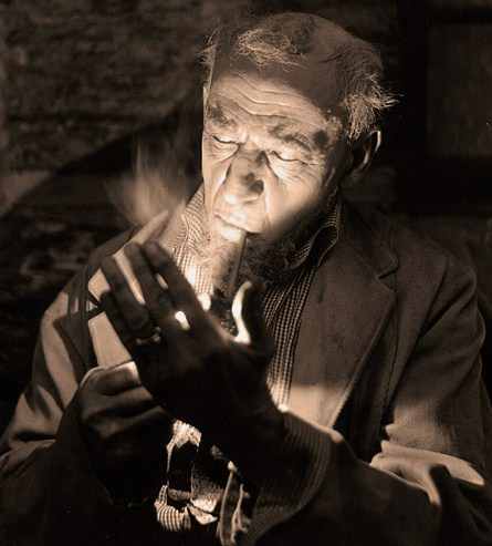 Joseph J. Dowling in Master of His Home (1917) - cropped screenshot